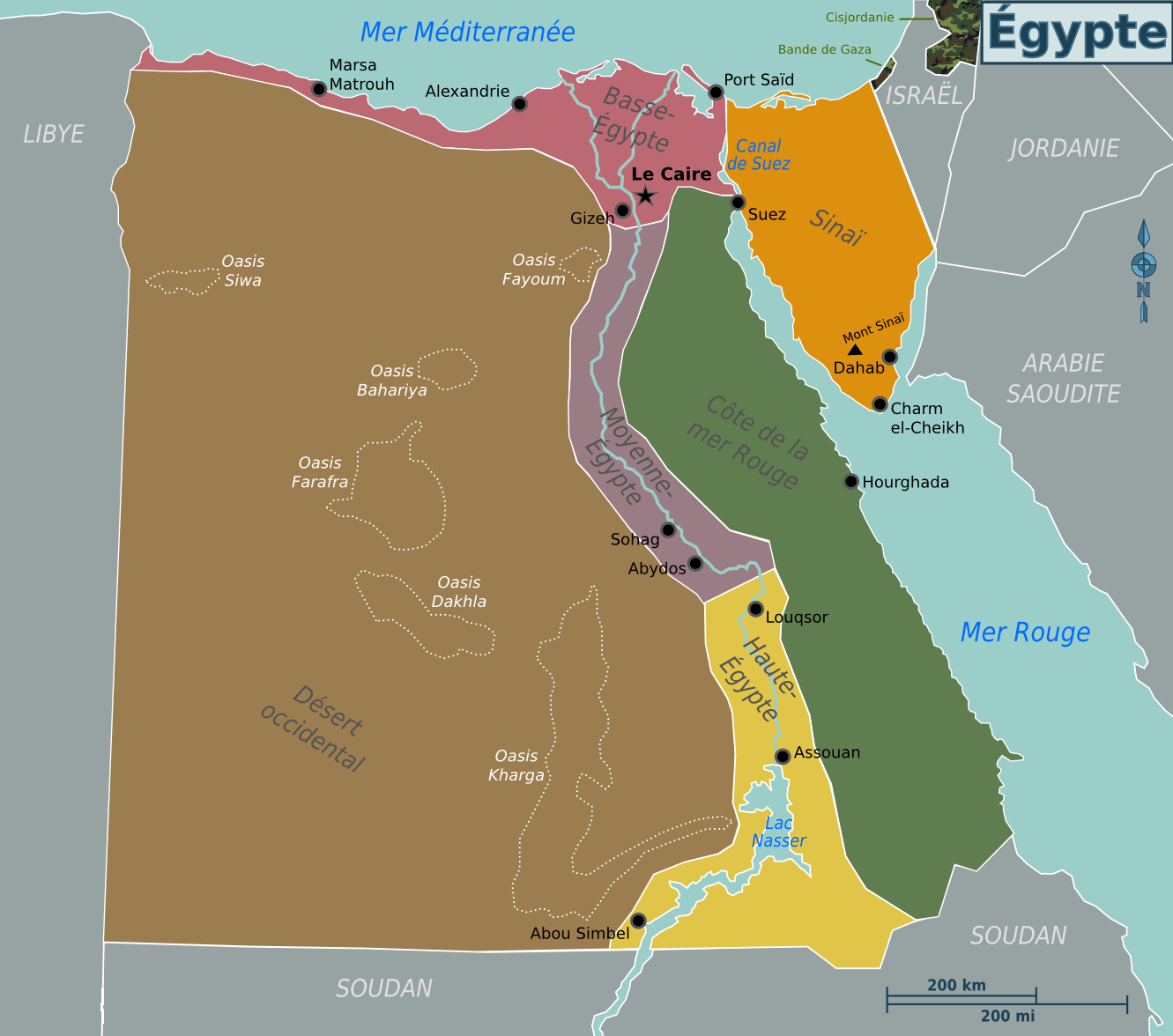 Map of Egypt's regions and major cities for use on Wikivoyage, French version